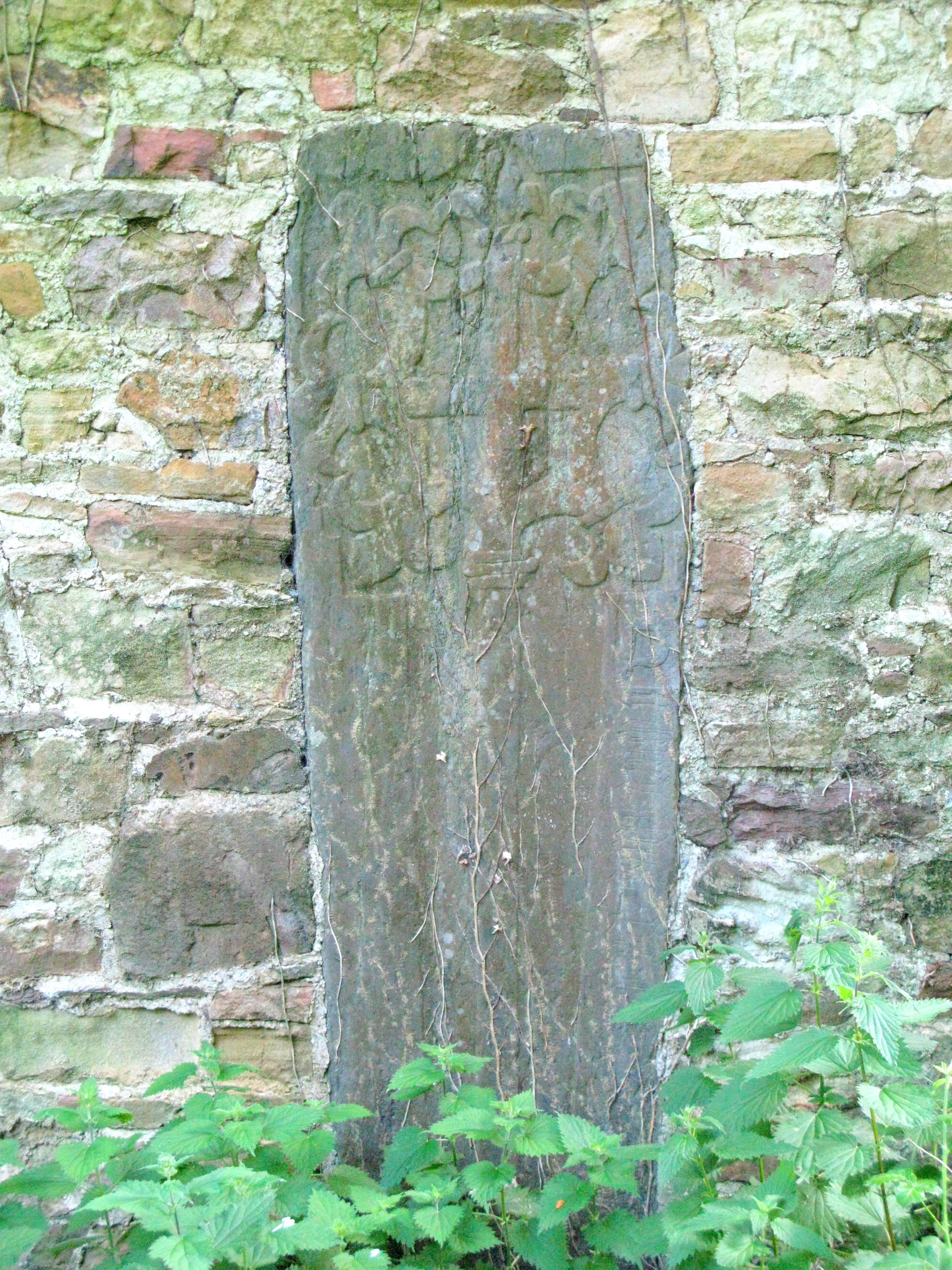 Stone located in Marlfield churchyard, Clonmel. Incorporated in south perimeter wall, part of adjoining farm building. Thought locally to be the gravestone of a Crusader and dating to the former Cistercian monastery associated with this site.